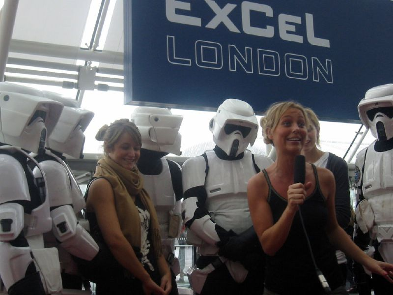 Everyone wants to interview the Biker Scouts. Photo by Bonnie Burton. Read more about Celebration Europe on 501st Legion at Star Wars Celebration Europe in 2007 at the ExCeL Exhibition Centre, London.